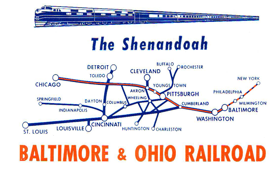 Baltimore and Ohio Railroad (B&O) system map in 1960, with the route of the Shenandoah highlighted in orange. The dotted line segment between Baltimore and New York City operated only until April 26, 1958.